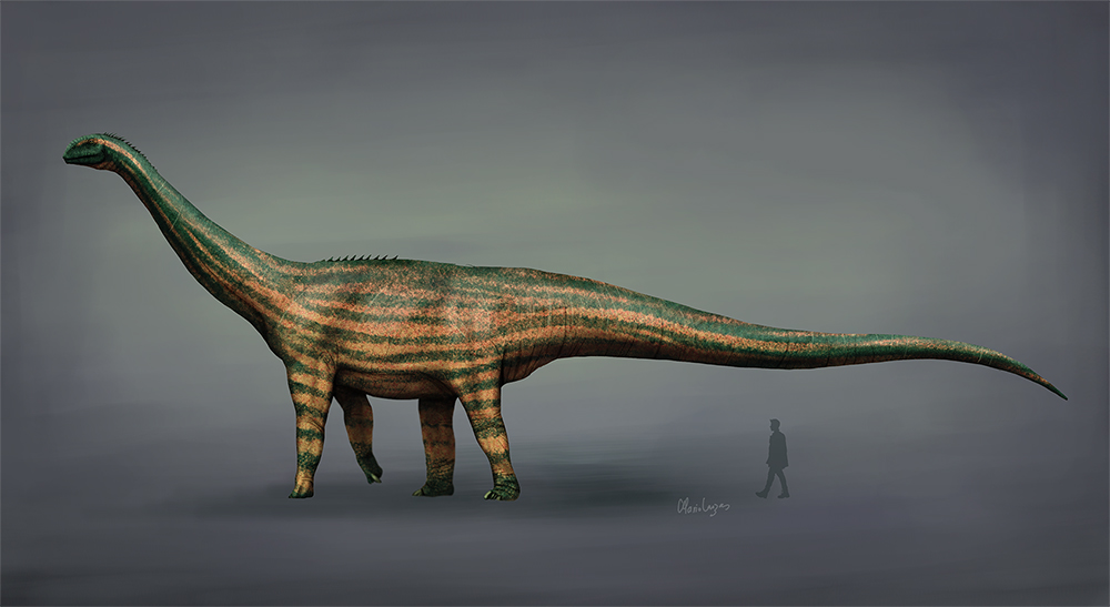 Turiasaurus reconstruction 2018 by Mario Lanzas